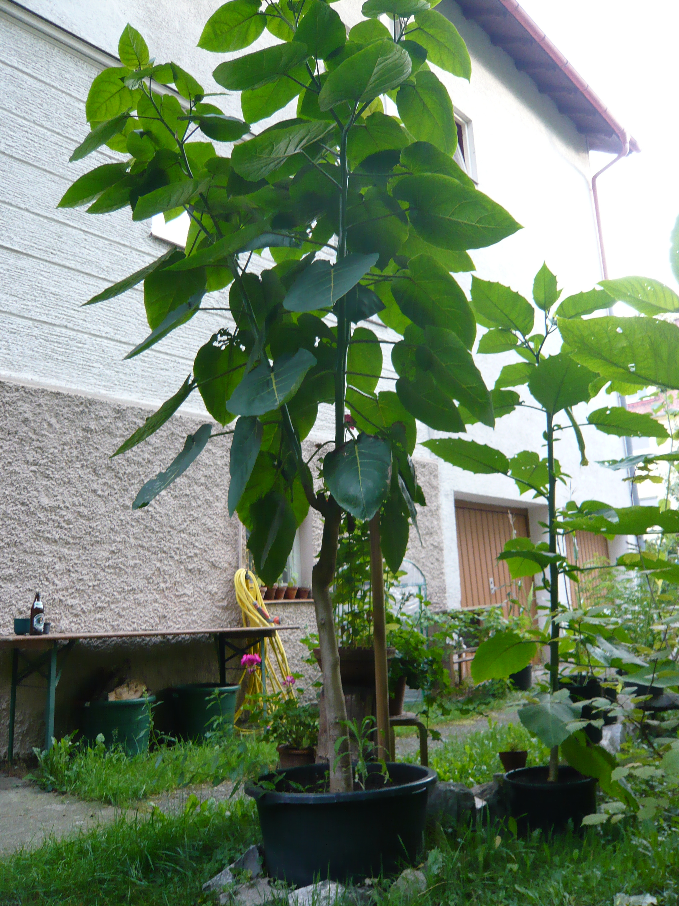 Cyphomandra betaceae, 4 years old, grown from seed